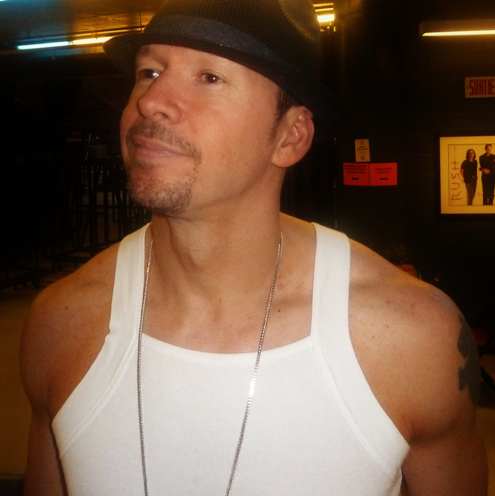 Donnie Wahlberg backstage after performing with NKOTBSB in Centre Bell, Montreal/Canada